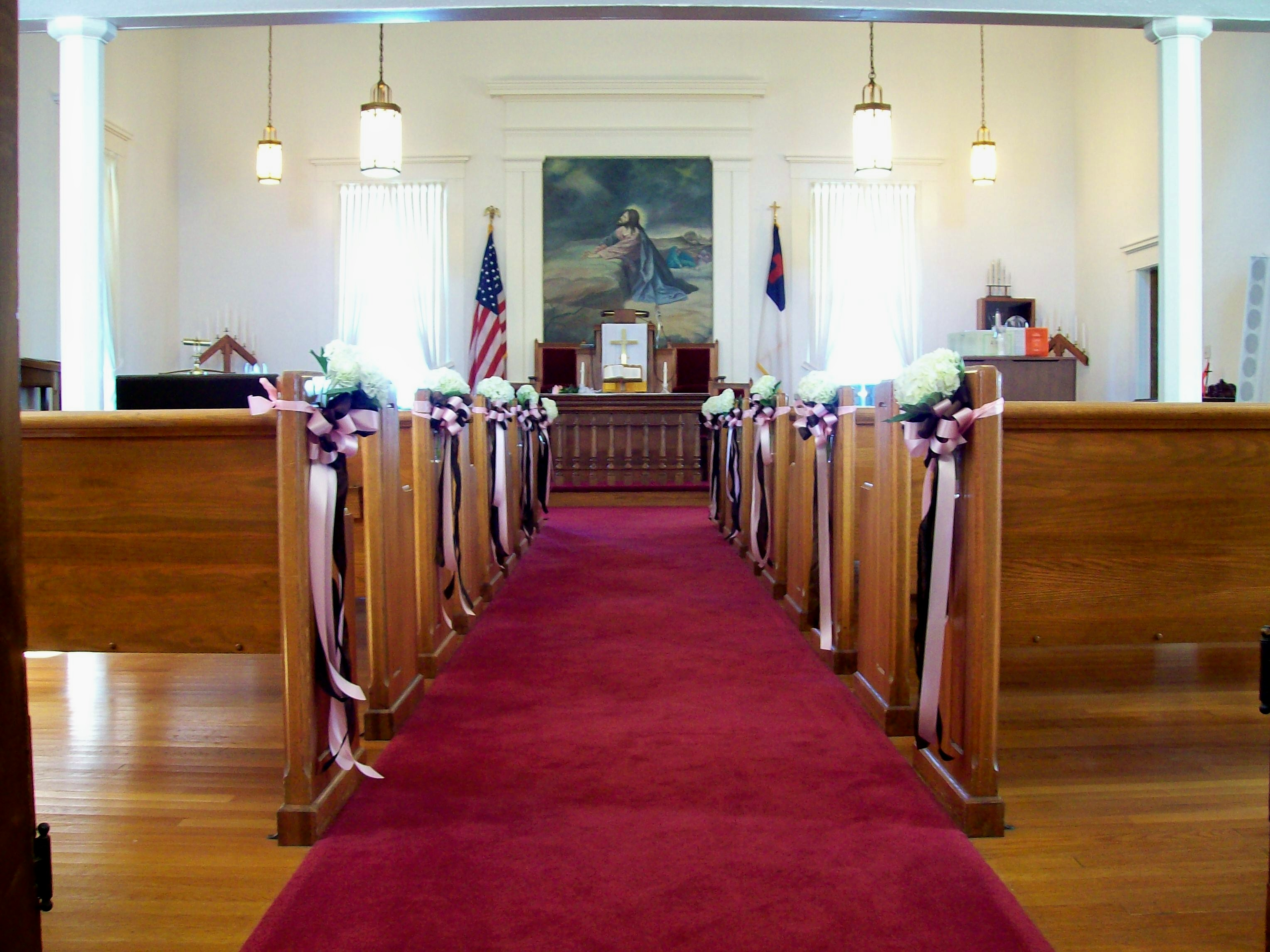 A view of the Sanctury before a wedding in September 2010.